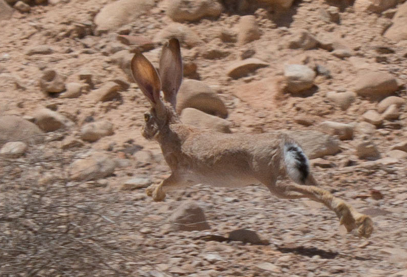 Cape hare (Lepus capensis sinaiticus) Fleeing. Ezuz, Israel.